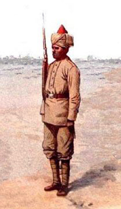 31st Regiment of Madras Light Infantry (now 3 Baloch). Coloured lithograph by Richard Simkin, c. 1888.